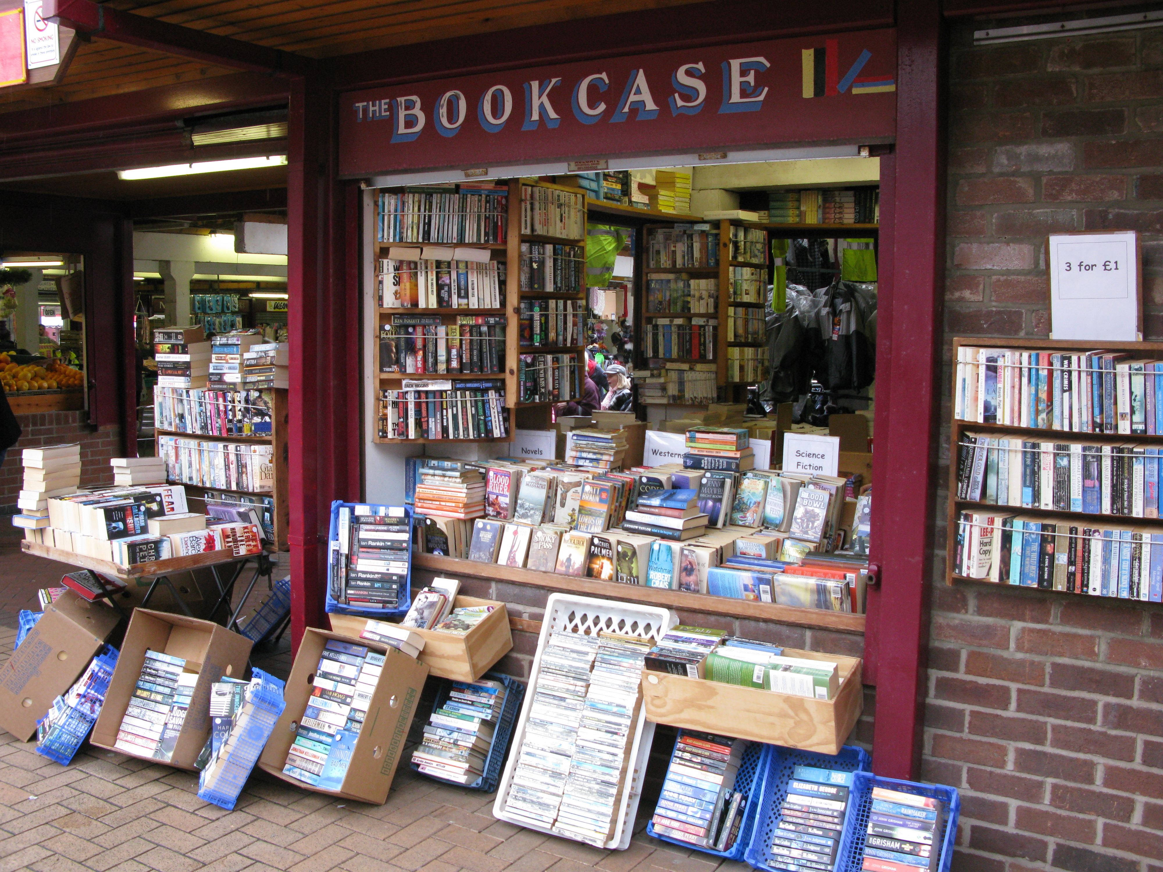 Second hand bookshop in Chorley, Lancashire UK